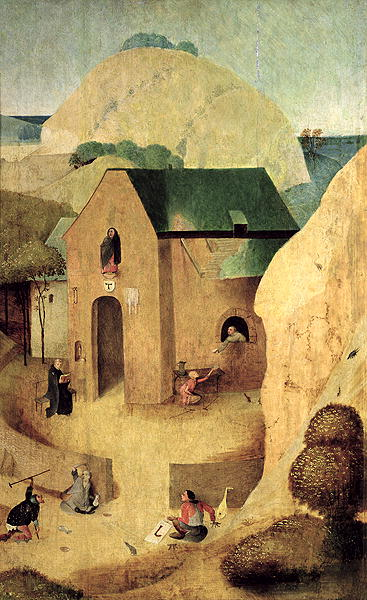 Front of a two sided painting. See St jacob.jpg for the reverse.